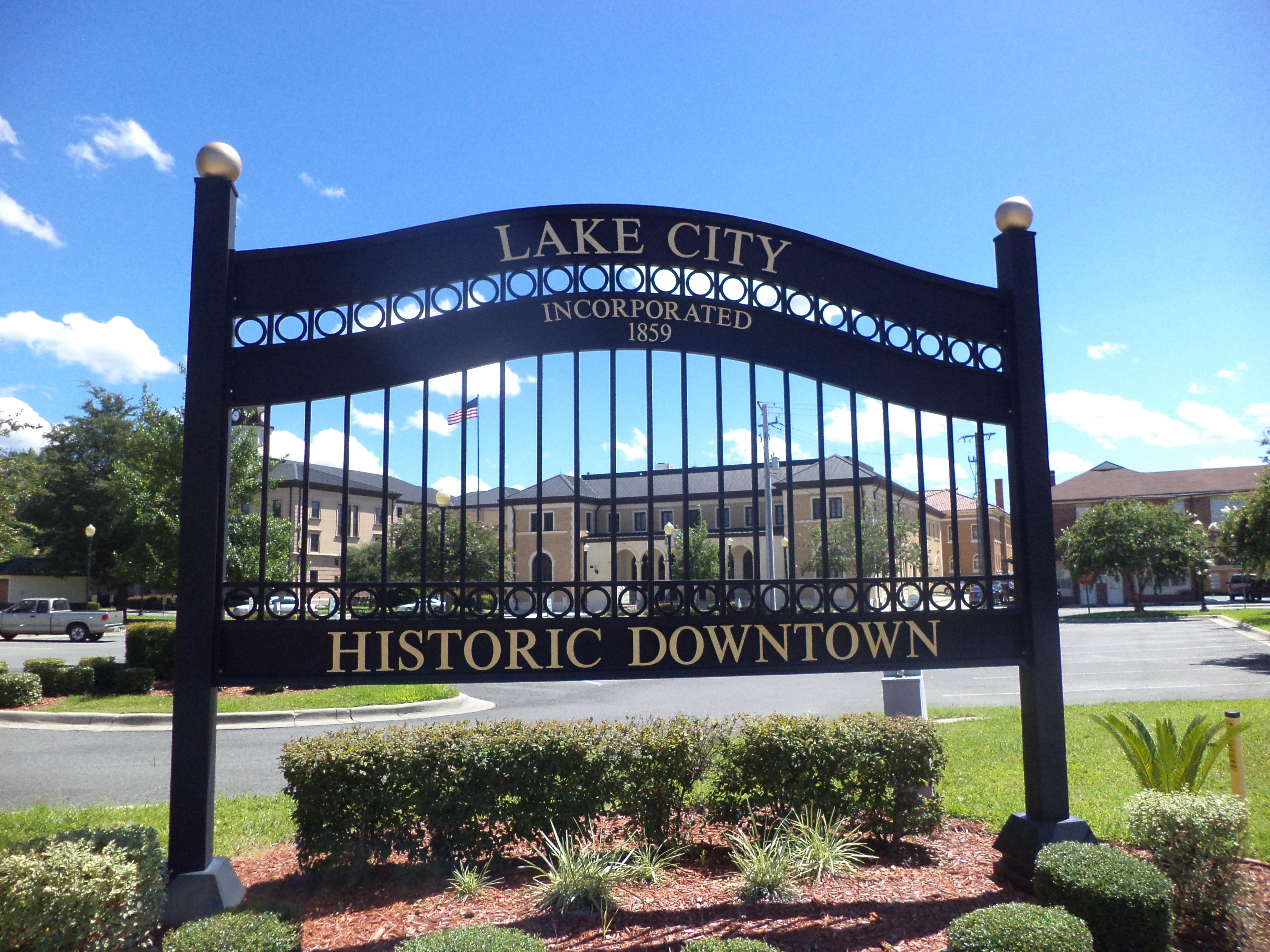 Lake City Historic Downtown sign, Lake City, Columbia County, Florida